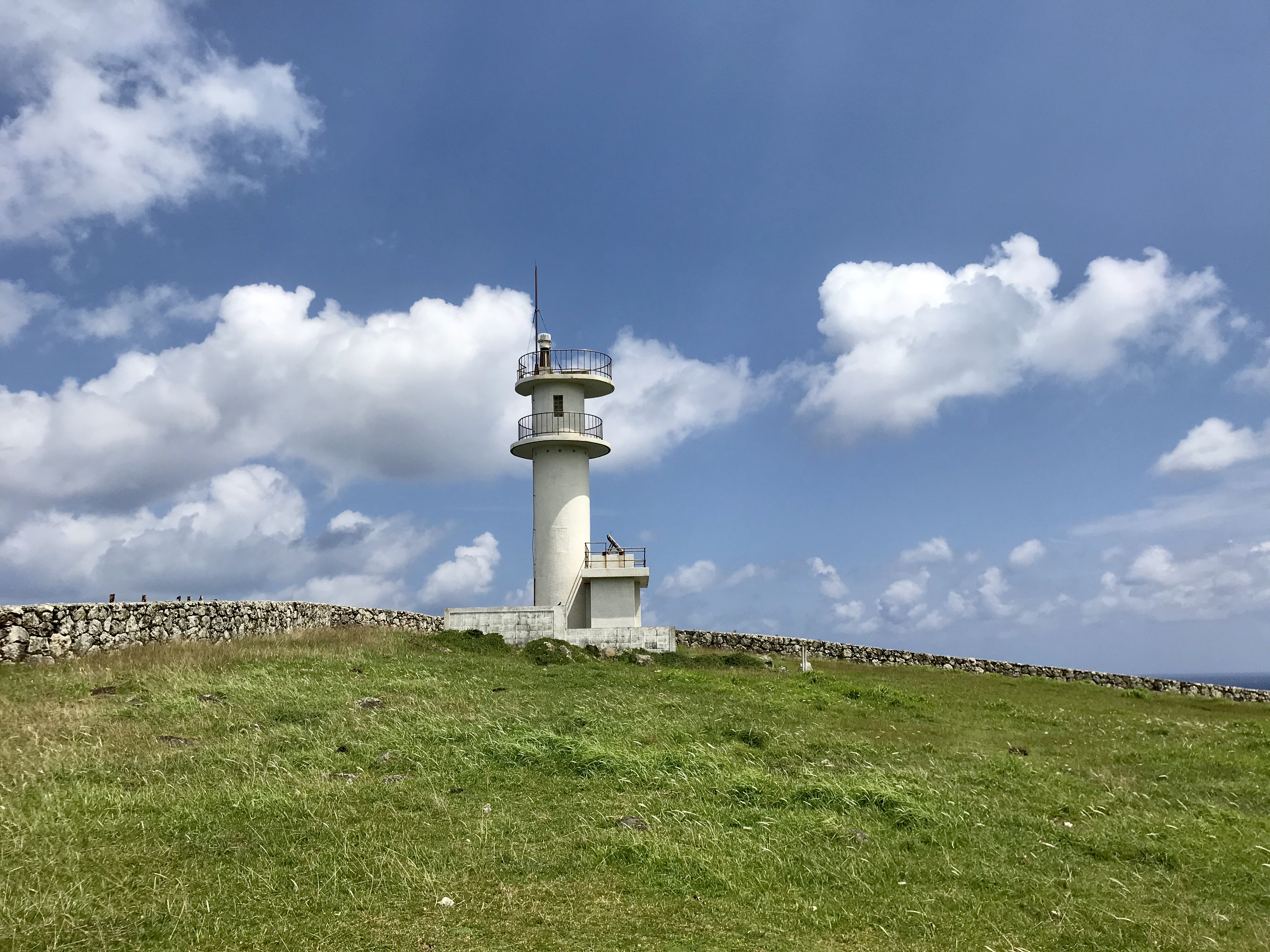 Agarizaki Lighthouse on Yonaguni Island in Yonaguni, Okinawa